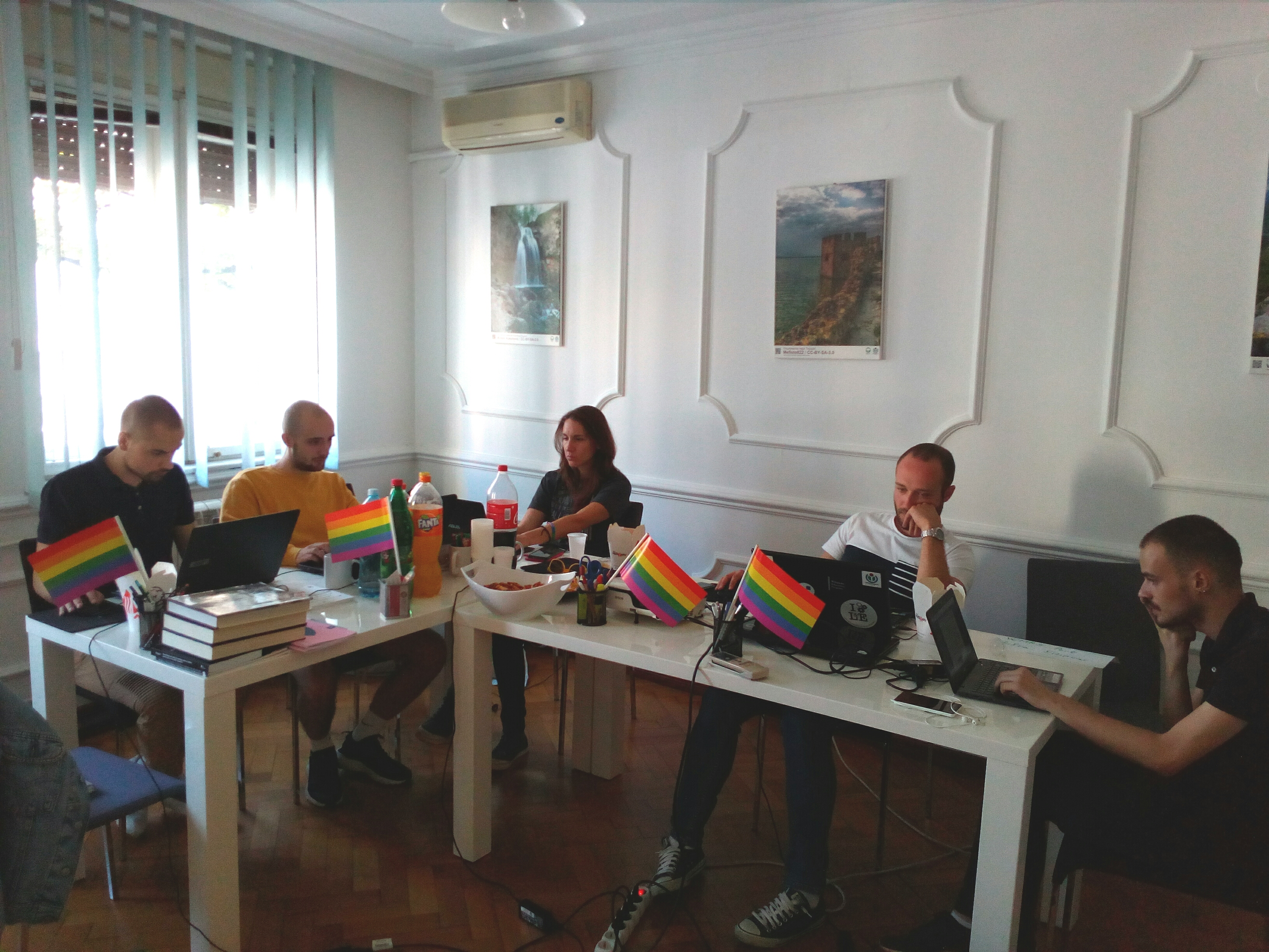 Wiki Loves Pride Edit-a-thon 2017